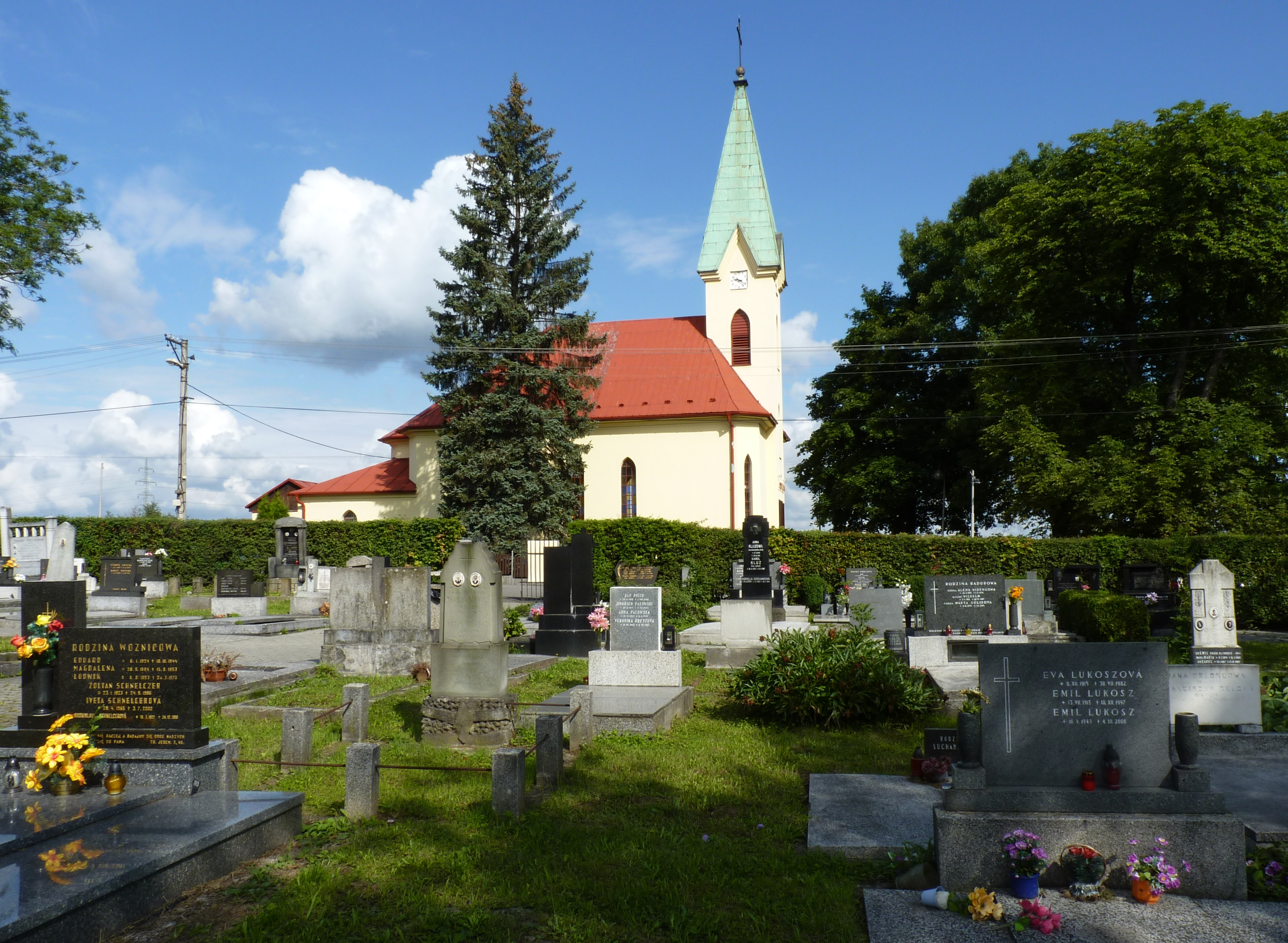 Stonava Lutheran Cemetery. Stonava, Karviná District, Moravian-Silesian Region, Czech Republic